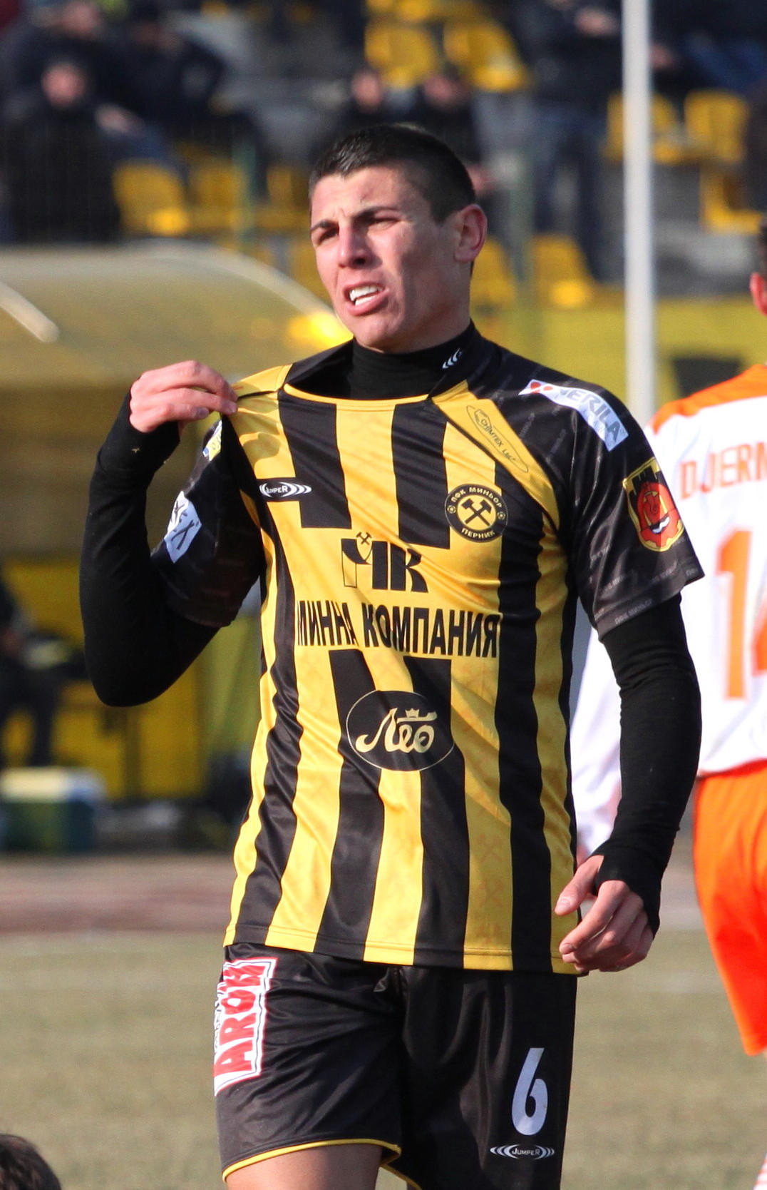 Daniel Zlatkov (Bulgarian: Даниел Златков) (born 6 March 1989) is a football defender from Bulgaria currently playing for Minyor Pernik.